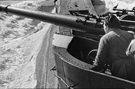 AWM caption : "DETAIL VIEW OF A 4 INCH MARK XII GUN 0N A ROYAL NAVY S.I SUBMARINE MOUNTING IN ACTION." This appears to show a QF 4 inch Mk XII gun, on an unidentified T class submarine.